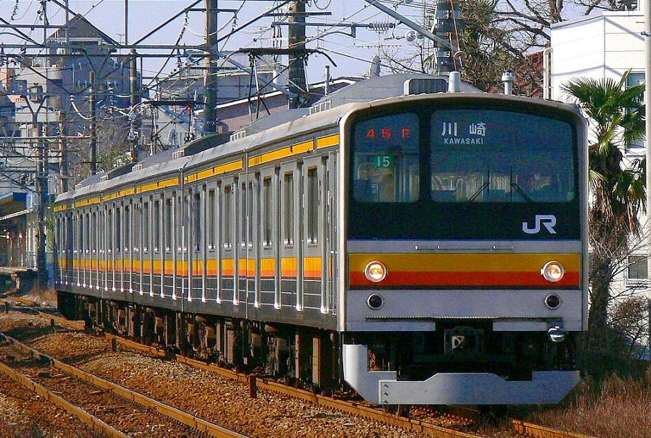 JR East 205-0 series EMU set 15 between Inadazutsumi Station and Nakanoshima Station on the Nambu Line